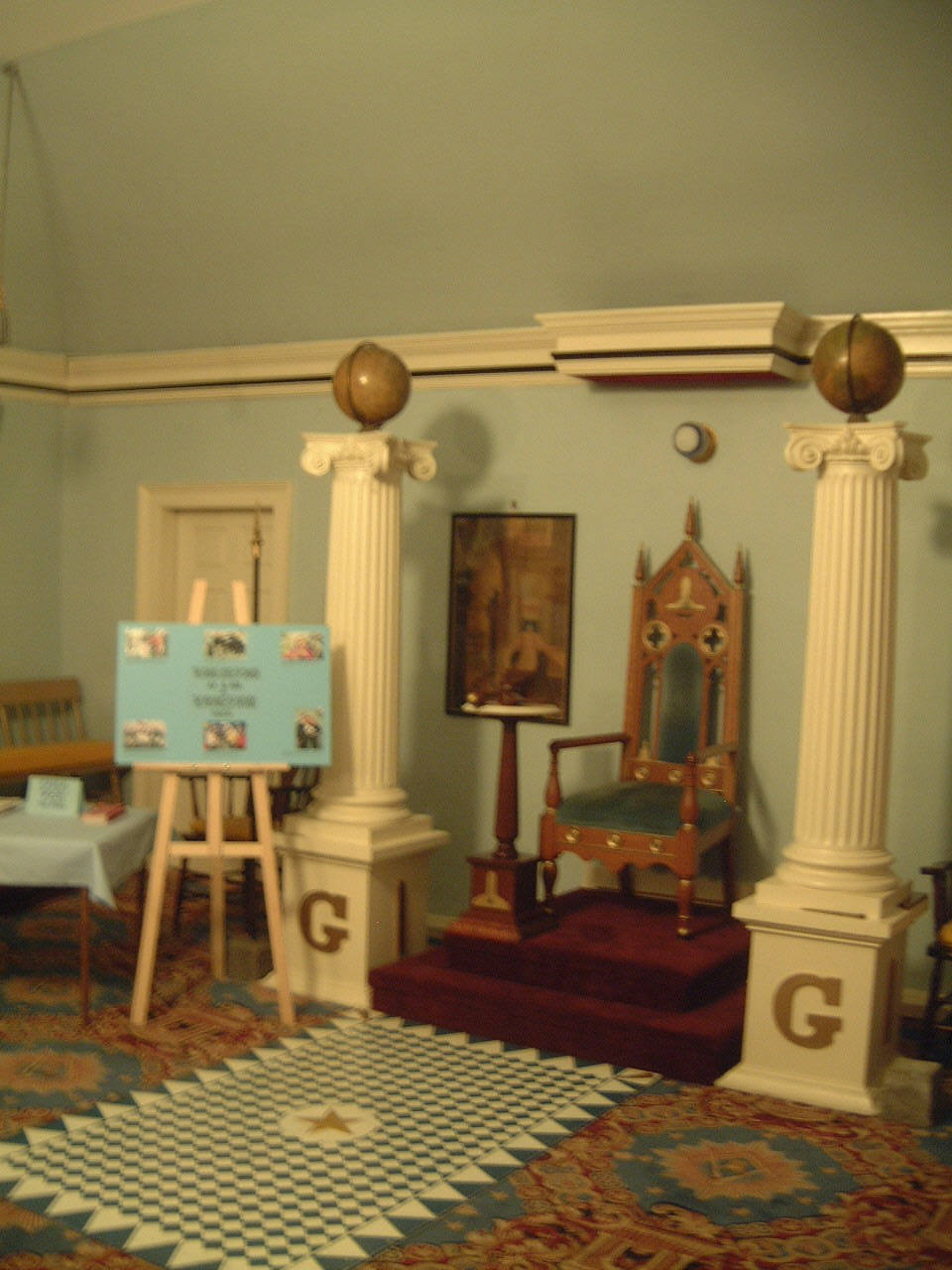 Chair surrounded by Symbols in Niagara Lodge 2 of the Freemasons Building in Niagara-on-the-Lake, Ontario, Canada.